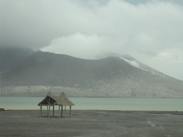 Rabaul Volcanoe called Tavurvur locally